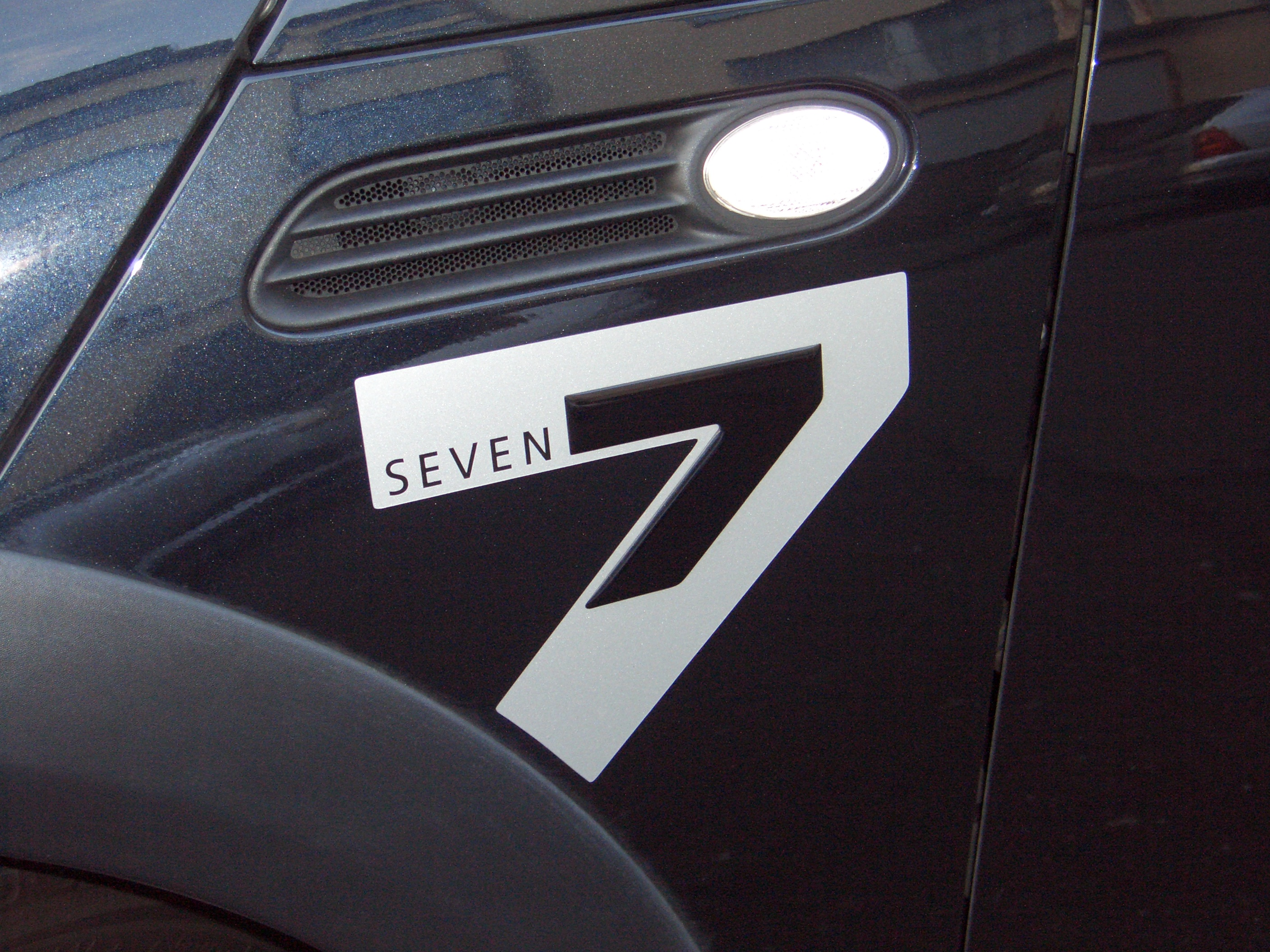 Mini (new, BMW) One, SEVEN option (from 2005), left front side (A pillar)